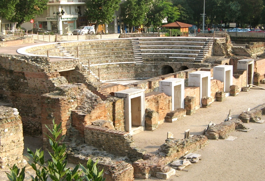 The odeion on the East side of the Roman agora in Thessaloniki, Greece.